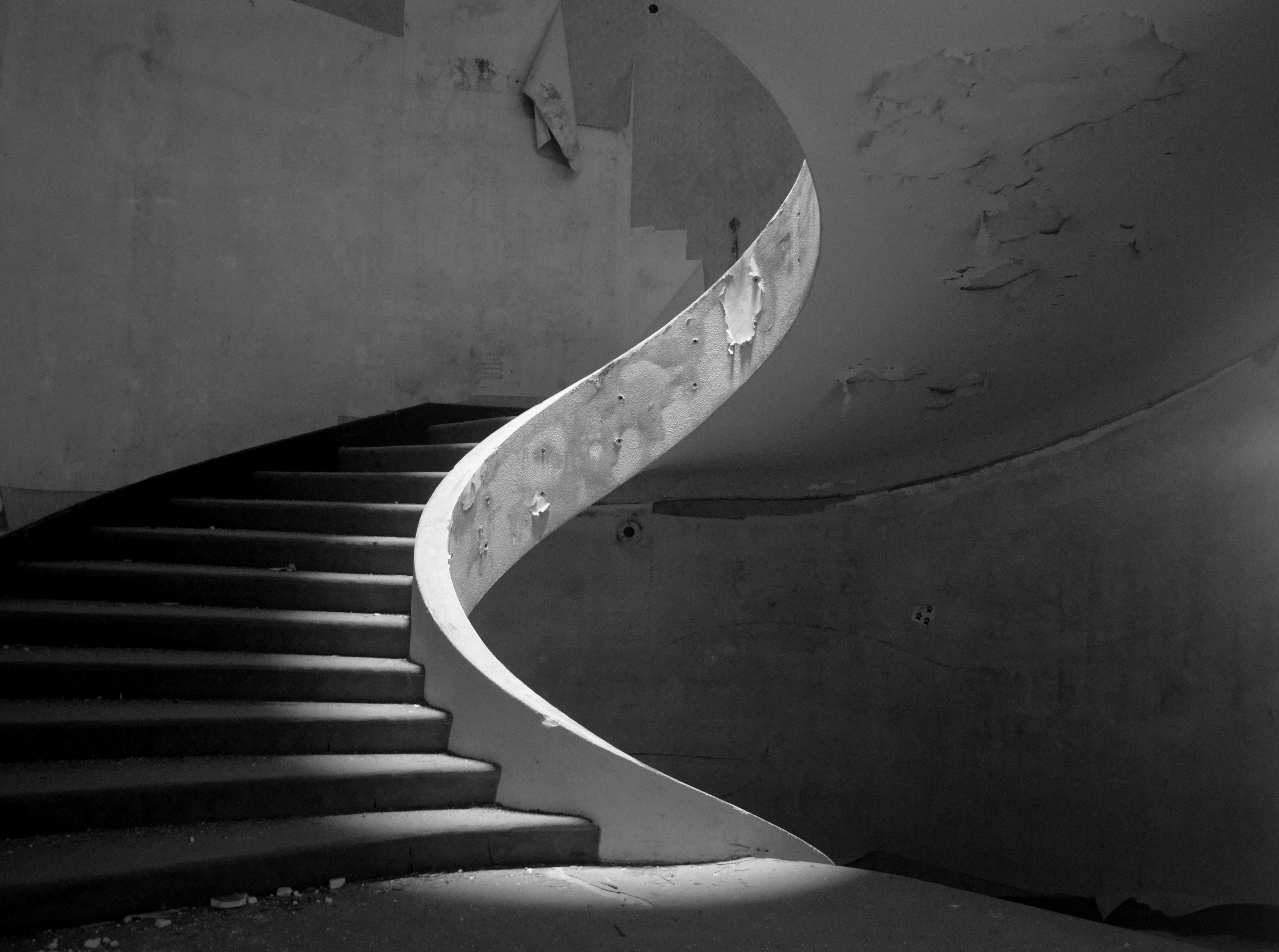 Stairs in the Monte Palace hotel, Azores, Sao Miguel, ruin photography, ruin porn